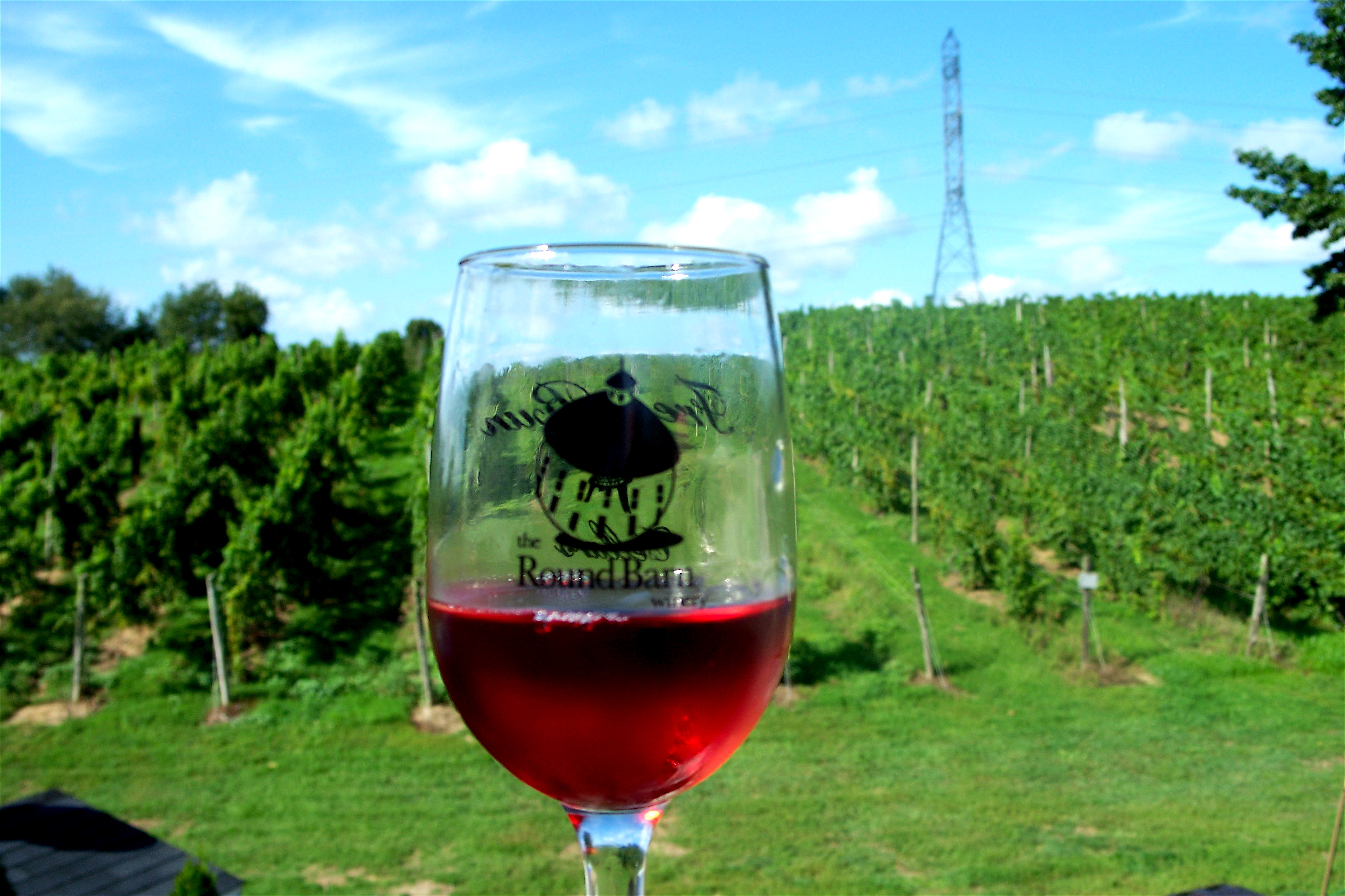 Cranberry Dessert wine at Round Barn Winery, Distillery & Brewery in Baroda, Michigan